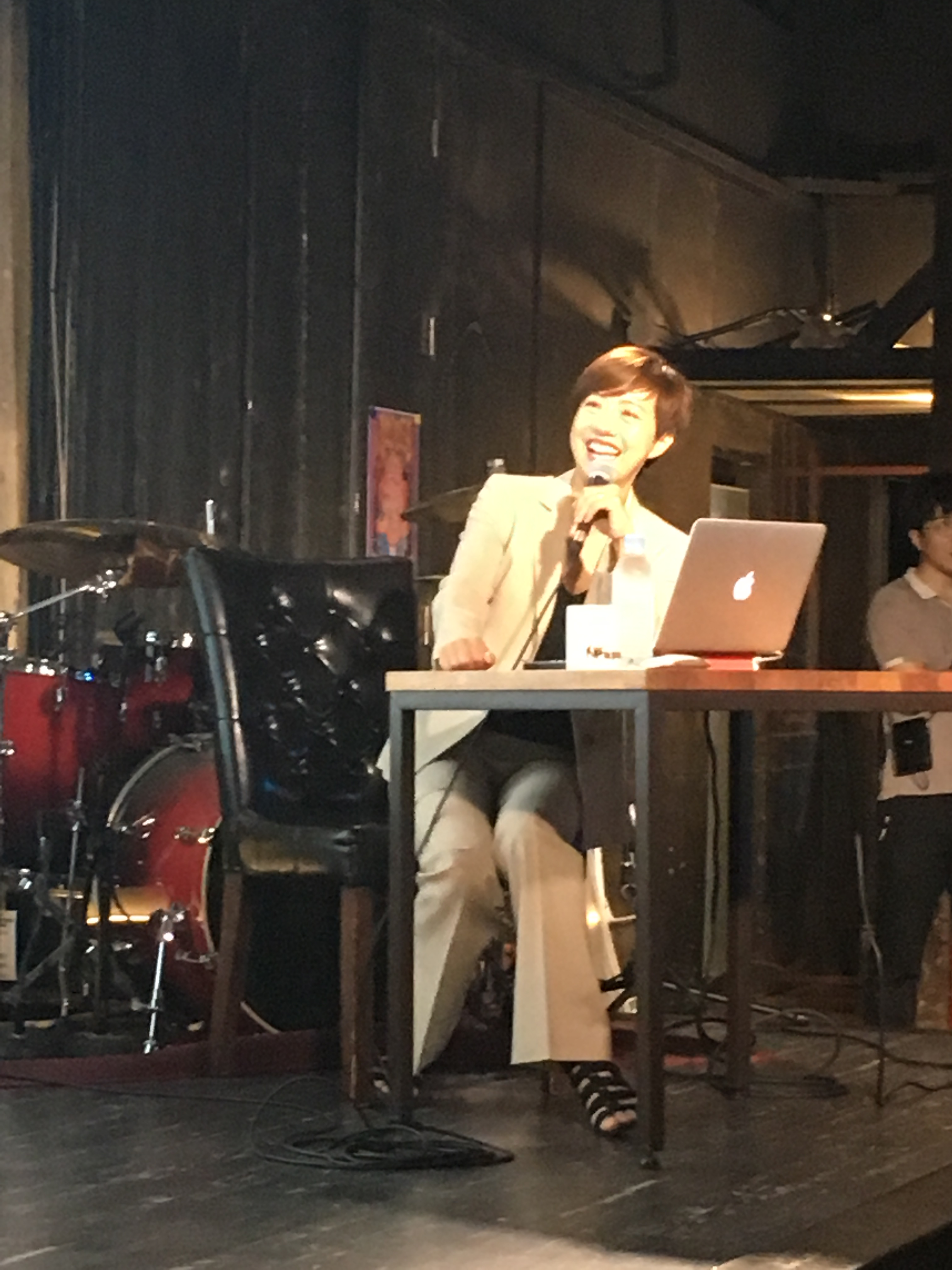 Sang-Hee LEE, Ph.D. Associate Professor and Department Chair Department of Anthropology, University of California at Riverside